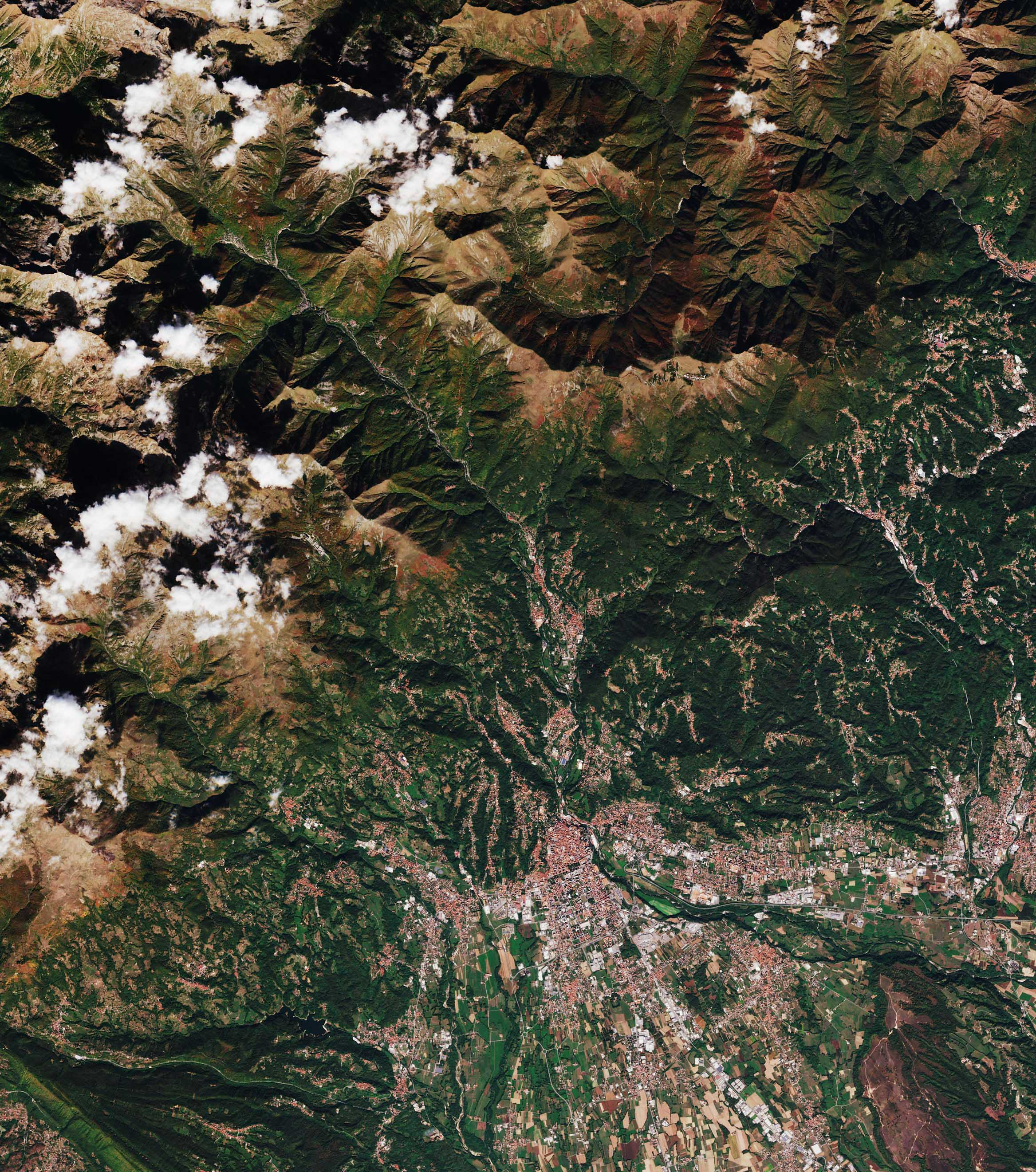 The Copernicus Sentinel-2B satellite takes us over the Italian Alps and down to the low plains that surround the city of Milan. The image captures the transition between the high snow-capped peaks of the Italian Alps and the flatlands of the northwest Po Valley. This transition cuts a sharp diagonal across the image, with the mountains in the top left triangle and the flat low-lying land in the bottom right. The southern part of the beautiful Lake Maggiore can also be seen in the image. Although its northern end crosses into Switzerland, Lake Maggiore is Italy’s longest lake and its character changes accordingly. The upper end is completely alpine in nature and the water is cool and clear, the middle region is milder lying between gentle hills and Mediterranean flora, and the lower end advances to the verge of the plain of Lombardy. The River Ticino, which rises in Switzerland and flows through Lake Maggiore, can be seen emerging from the lake’s southern tip. Here, the land, which is one of the most fertile regions in Italy, gives way to numerous agricultural fields, which are clearly visible to the west of the river. The city of Milan lies to the east of the river. In May 2019, Milan will host ESA’s Living Planet Symposium. Held every three years, these symposia draw thousands of scientists and data users from around the world to discuss their latest findings on the environment and climate. This image, which was captured on 9 October 2017, is also featured on the Earth from Space video programme . contains modified Copernicus Sentinel data (2017), processed by ESA, CC BY-SA 3.0 IGO